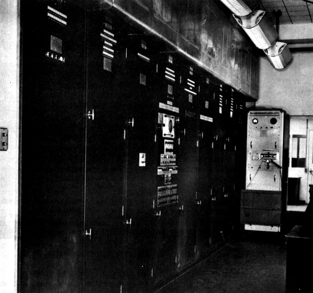 "U.S. Army Photo" of the EDVAC, from K. Kempf, "Historical Monograph: Electronic Computers Within the Ordnance Corps"